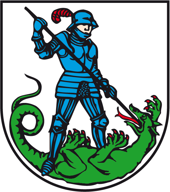 Coat of arms of Hecklingen, Part of Hecklingen